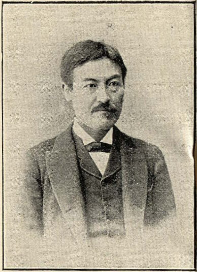 Shimada Saburo(島田三郎) was a politician, journalist and government official in Meiji era .